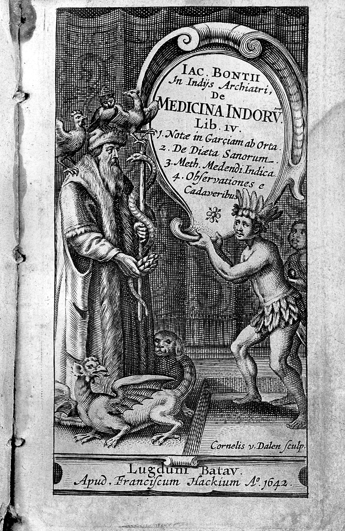 Title page. Rare Books